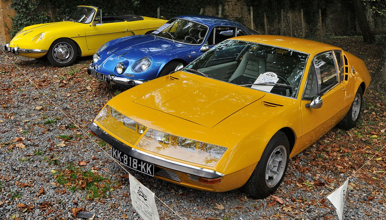 Alpine A310 four-cylinder(1972), in front of Alpine A110 (1970) (Berlinette Tour de France) and an Alpine A108 Cabriolet (1961).Alpine was a French manufacturer of racing and sports cars that used rear mounted Renault engines.